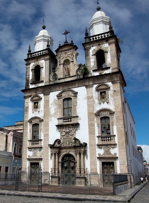 Concatedral of Saint Peter of Clerics - Recife, Pernambuco, Brazil